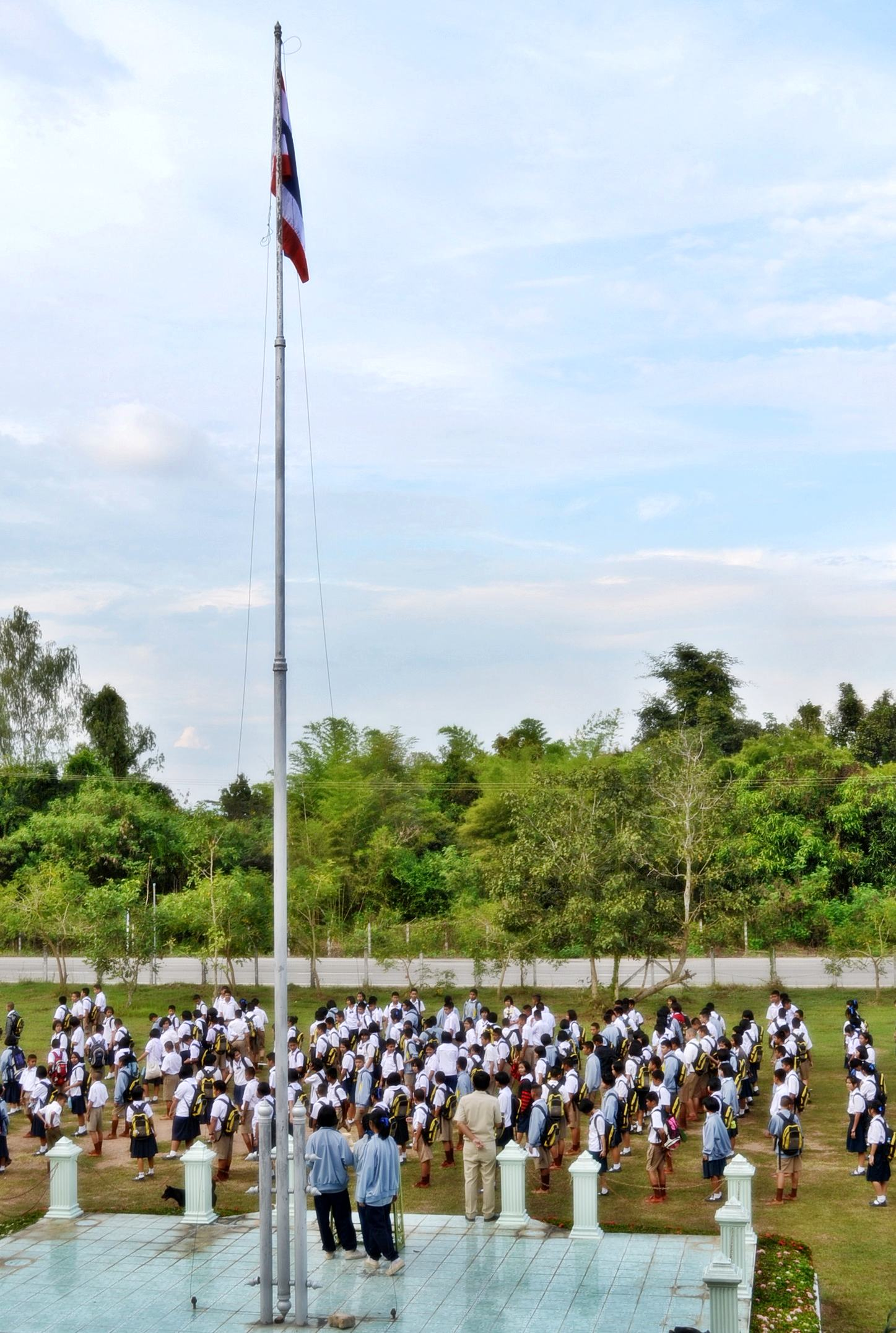 student in Thung Kalo Witthaya School , Mueang Uttaradit, Uttaradit Province, Thailand.